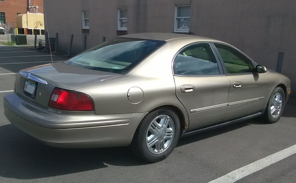 2000-2003 Mercury Sable photographed in New Castle, Pennsylvania